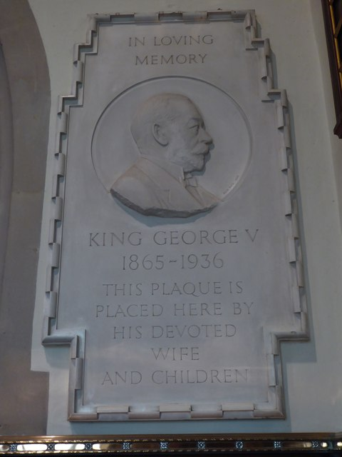 St Mary Magdalene, Sandringham: memorial (13)